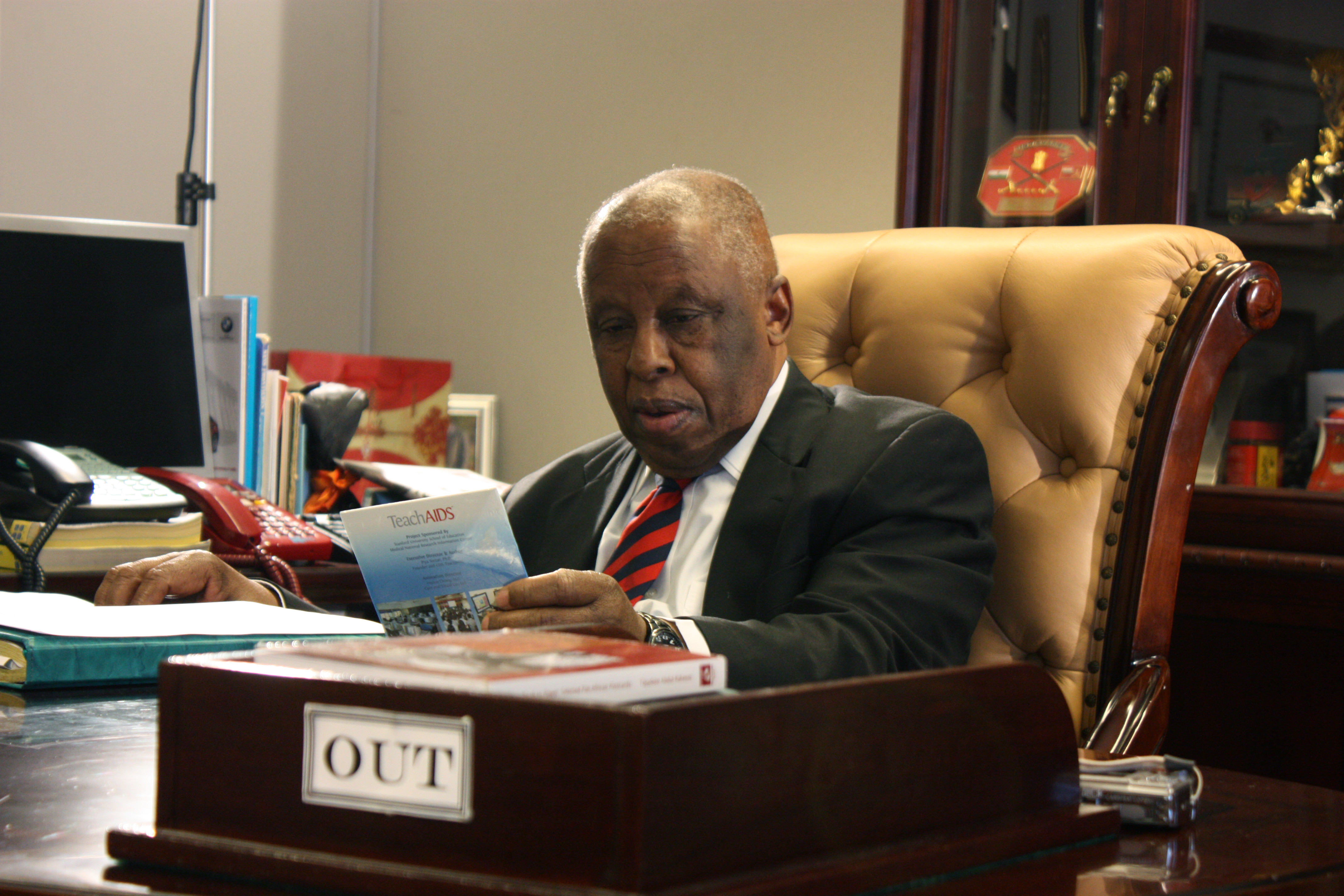 H.E. Festus Mogae, former president of Botswana, records a special "Message of Hope" for the youth of his country, which was incorporated into the final Botswana versions of the TeachAIDS software. Photo credit: TeachAIDS